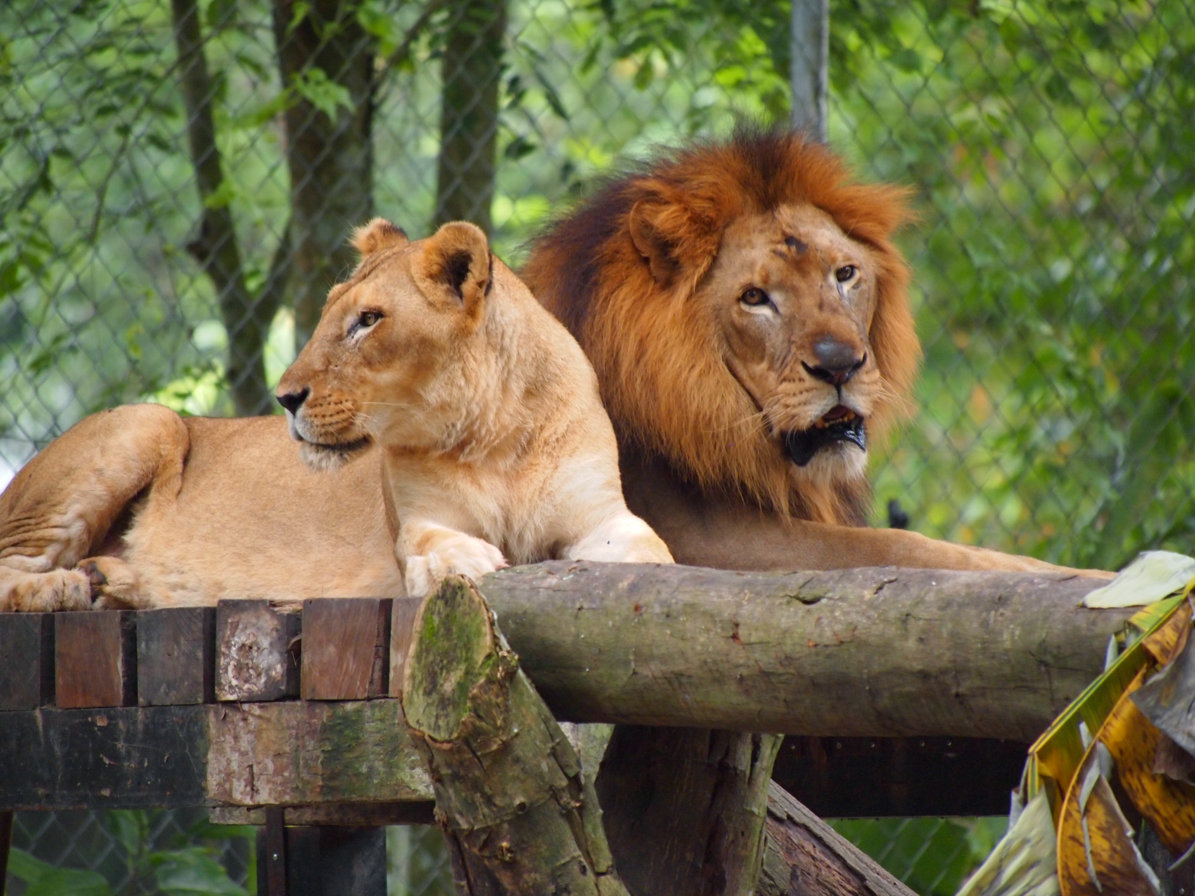 Female and Male Lion (Panthera Leo) at National Zoo Malaysia